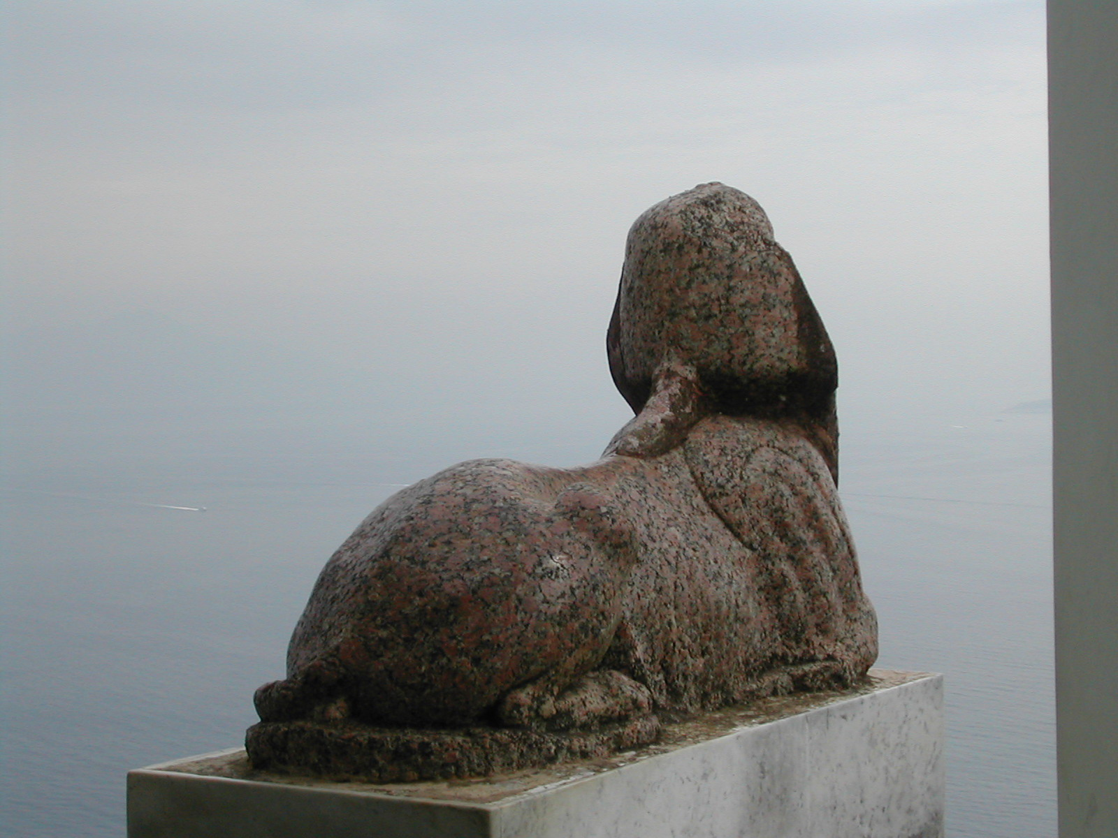 Egyptian Sphynx in Villa San Michele, Capri